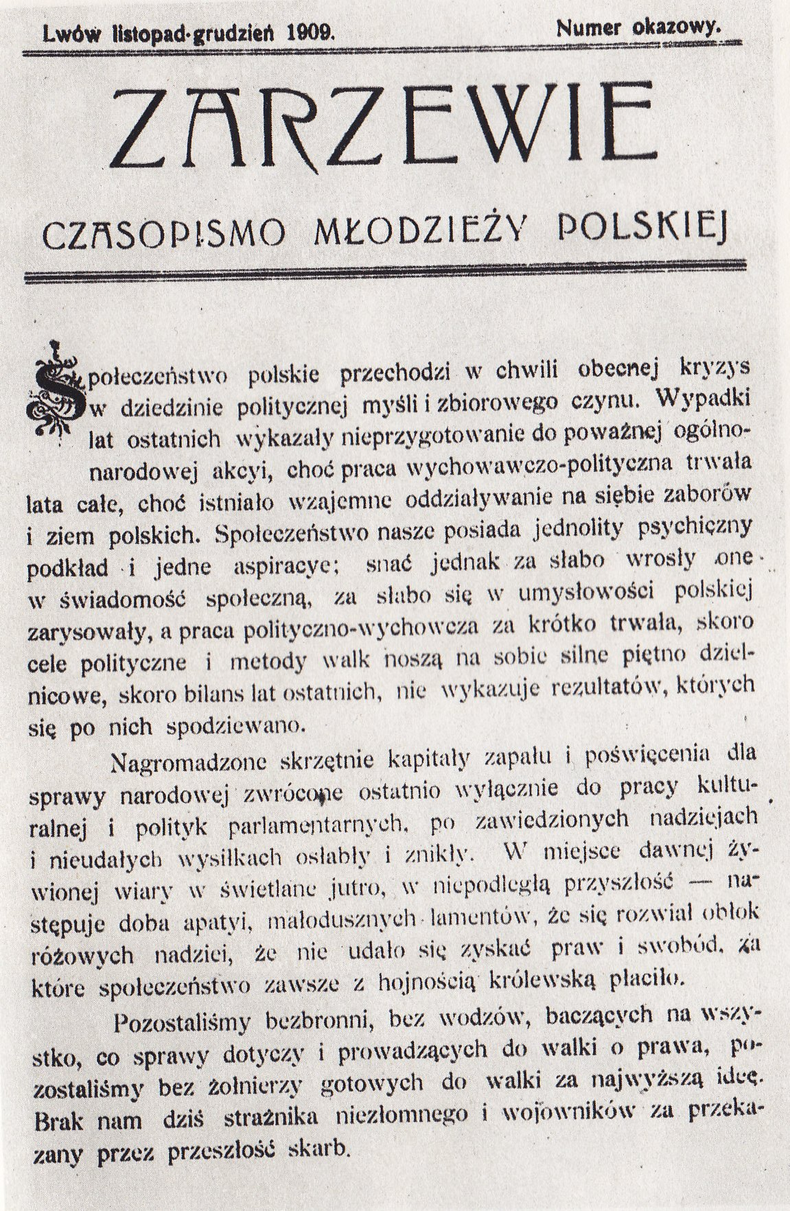 Front page of the first issue of "Zarzewie" paper of OMN Zarzewie